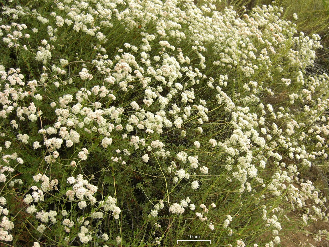 Eriogonum fasciculatum 20100706.55 Mount Wilson, San Gabriels, so. CA